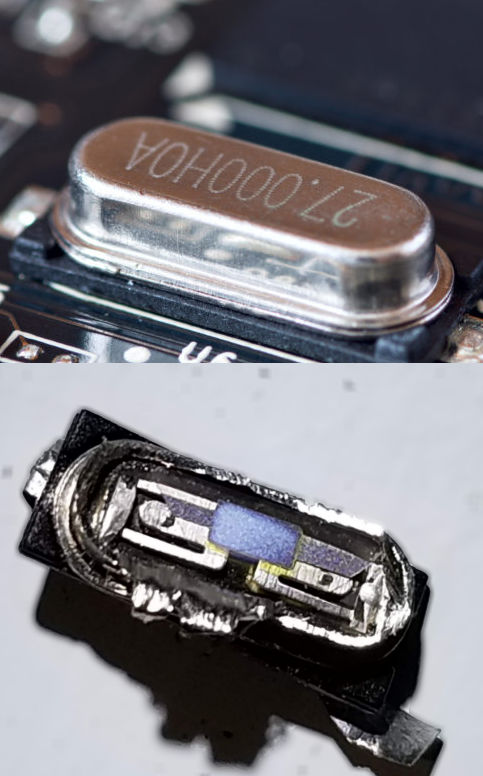 Internal of quartz crystal. Simply two electrodes with a "blank" of quartz between.